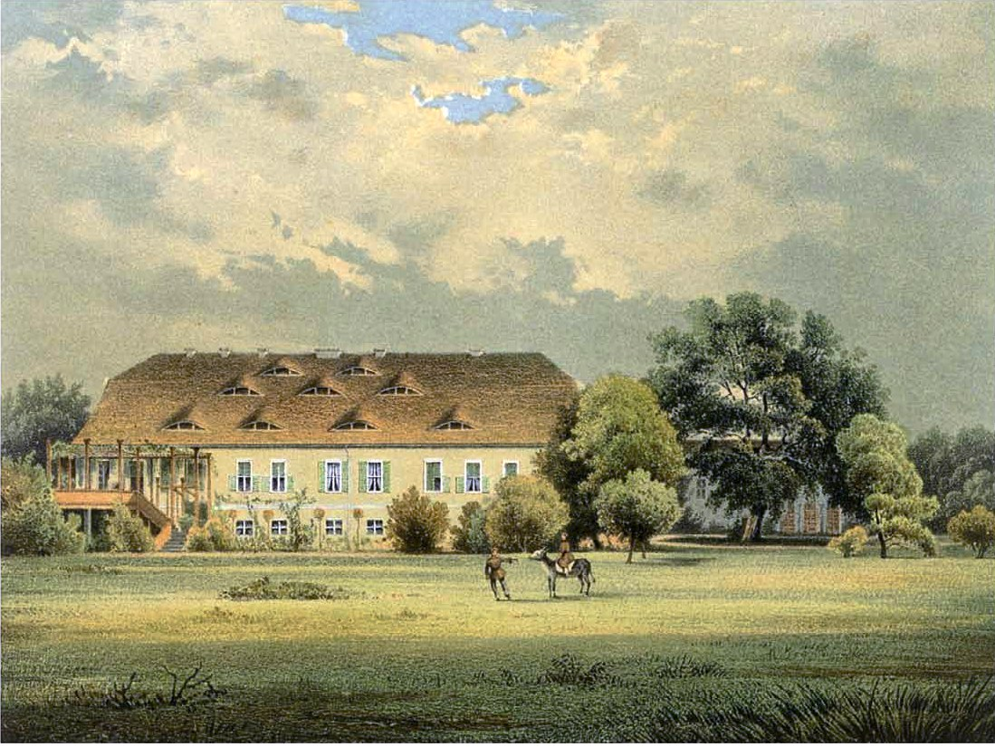 The Manor House in Hoppenrade in Prignitz (nowadays a locality of Plattenburg), Brandenburg, Germany